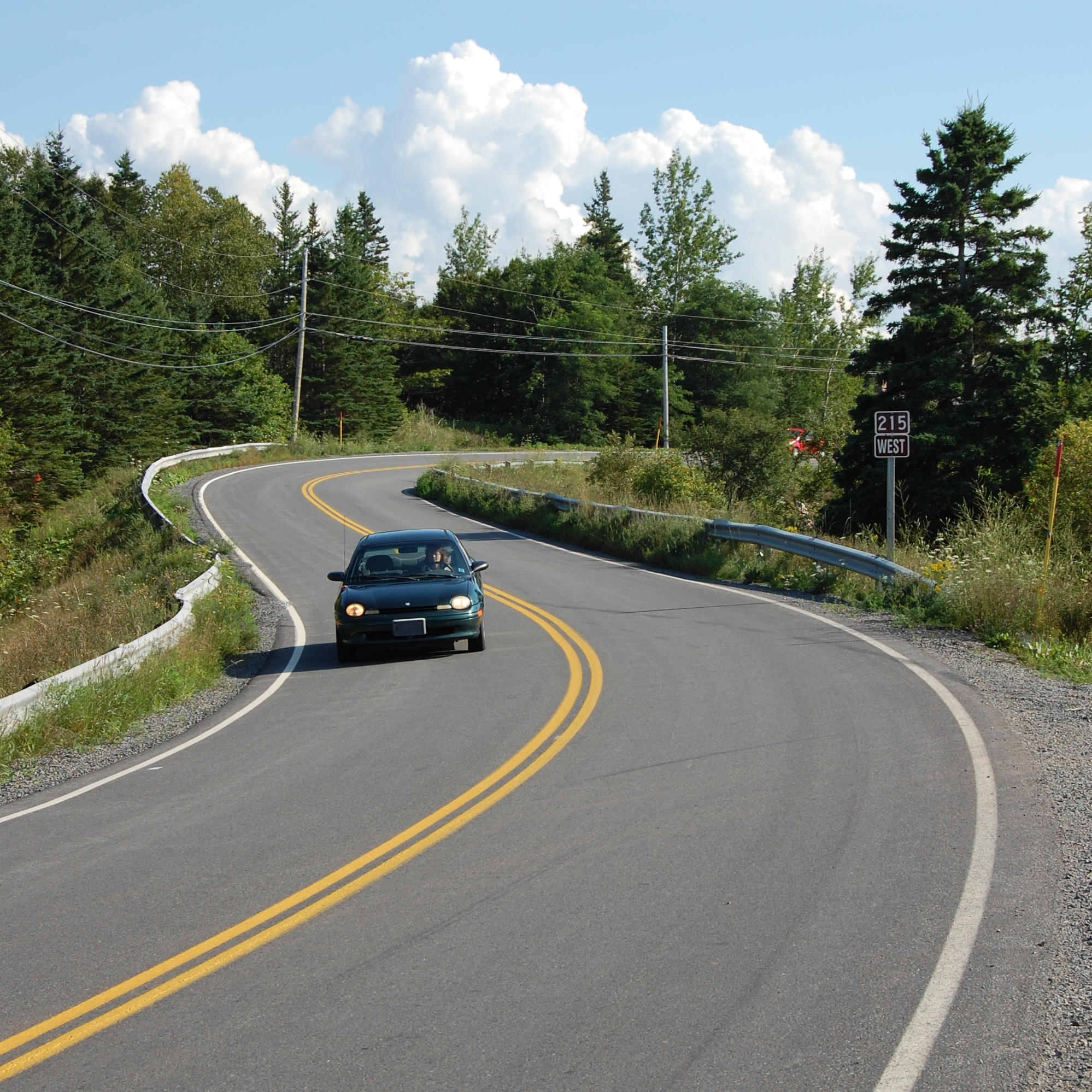 Photo of rural highway route 215 in Chevarie, Nova Scotia, Canada